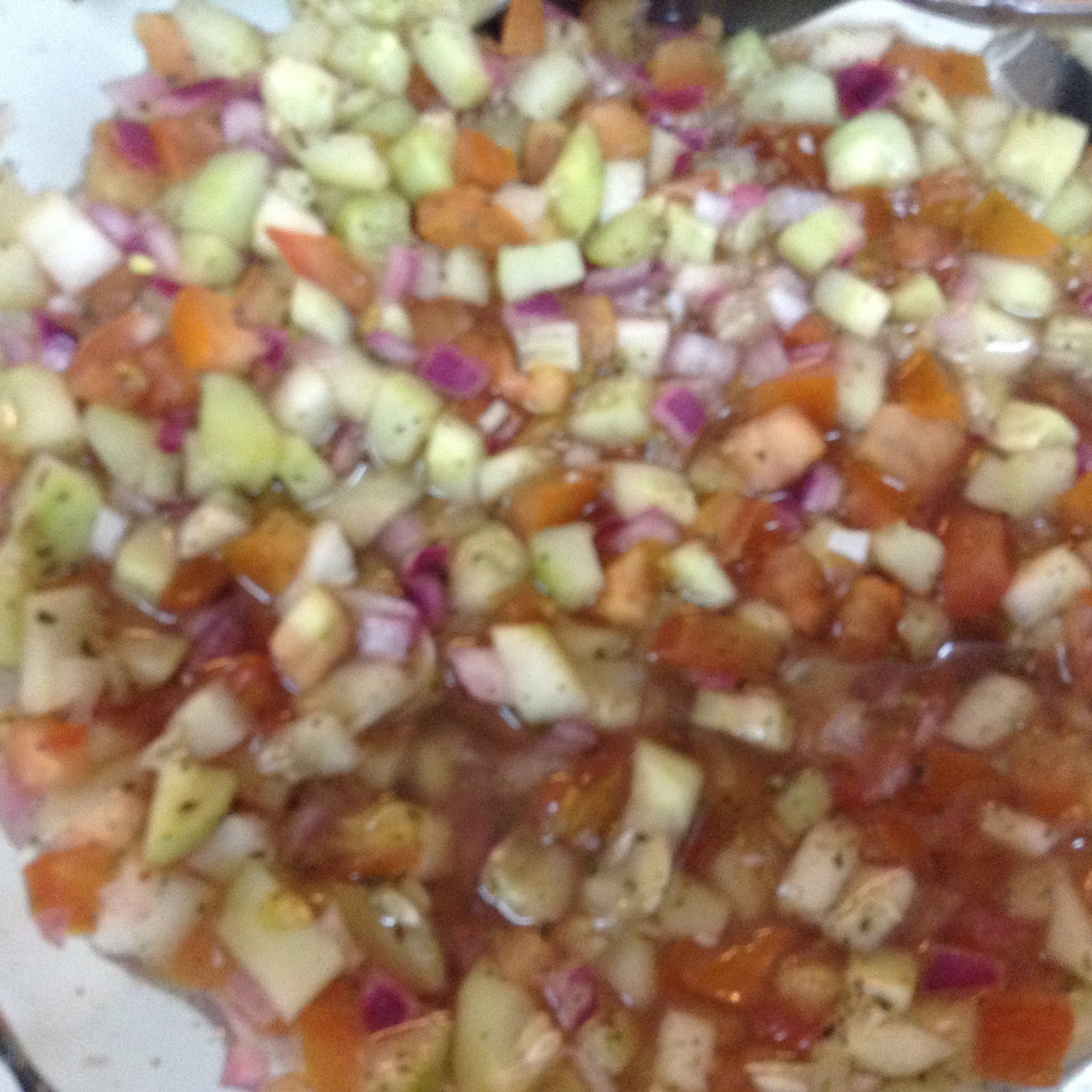 an Iranian salad- front view